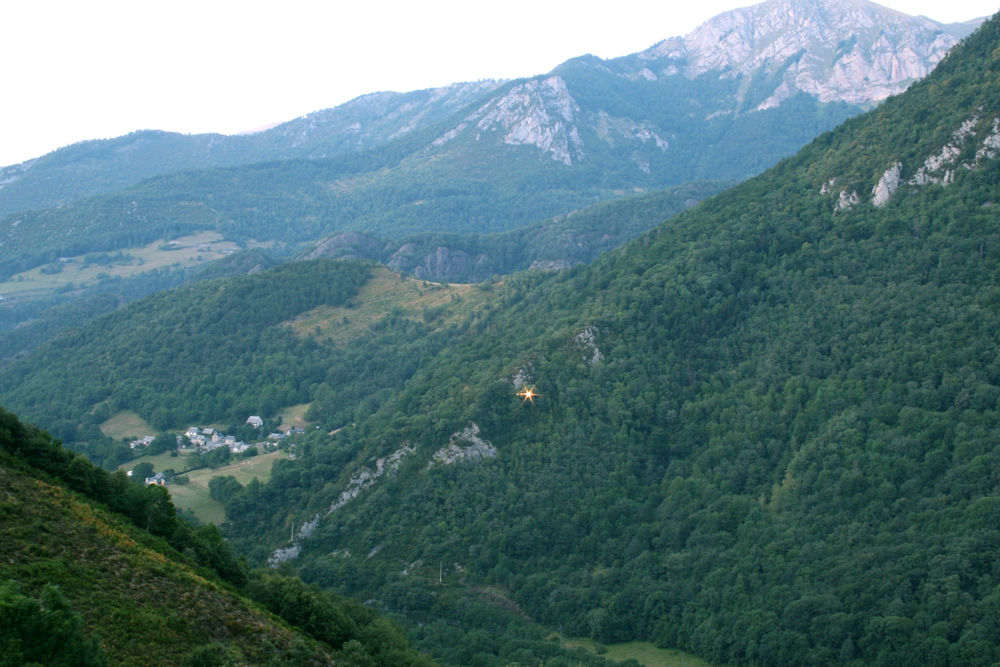 location of the Middle Paleolithic site of "Grotte du Noisetier", Fréchet-Aure, Hautes-Pyrénées